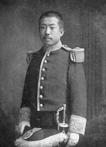 Suetada Ano